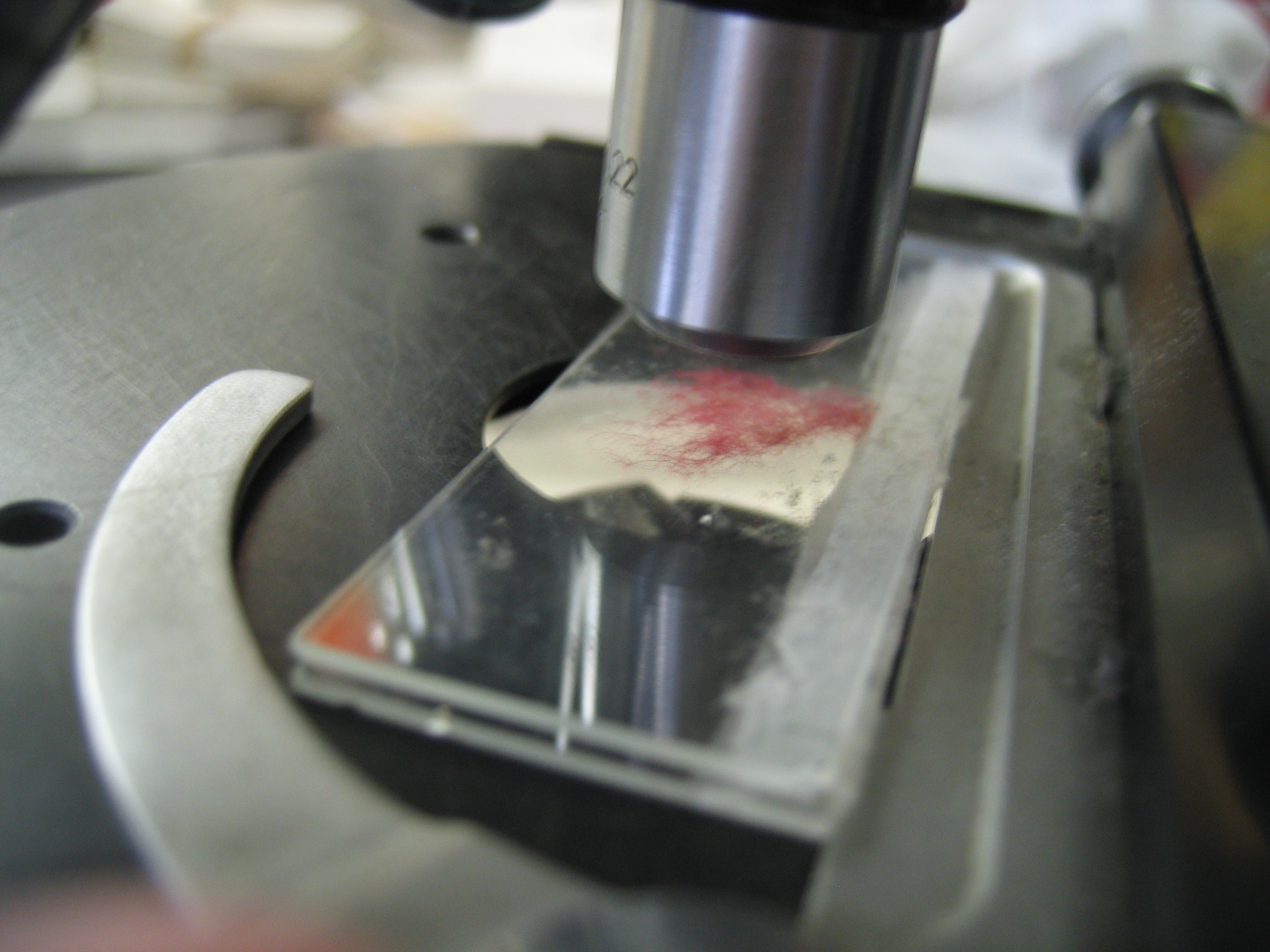 Fabric under a microscope at a shatnes lab